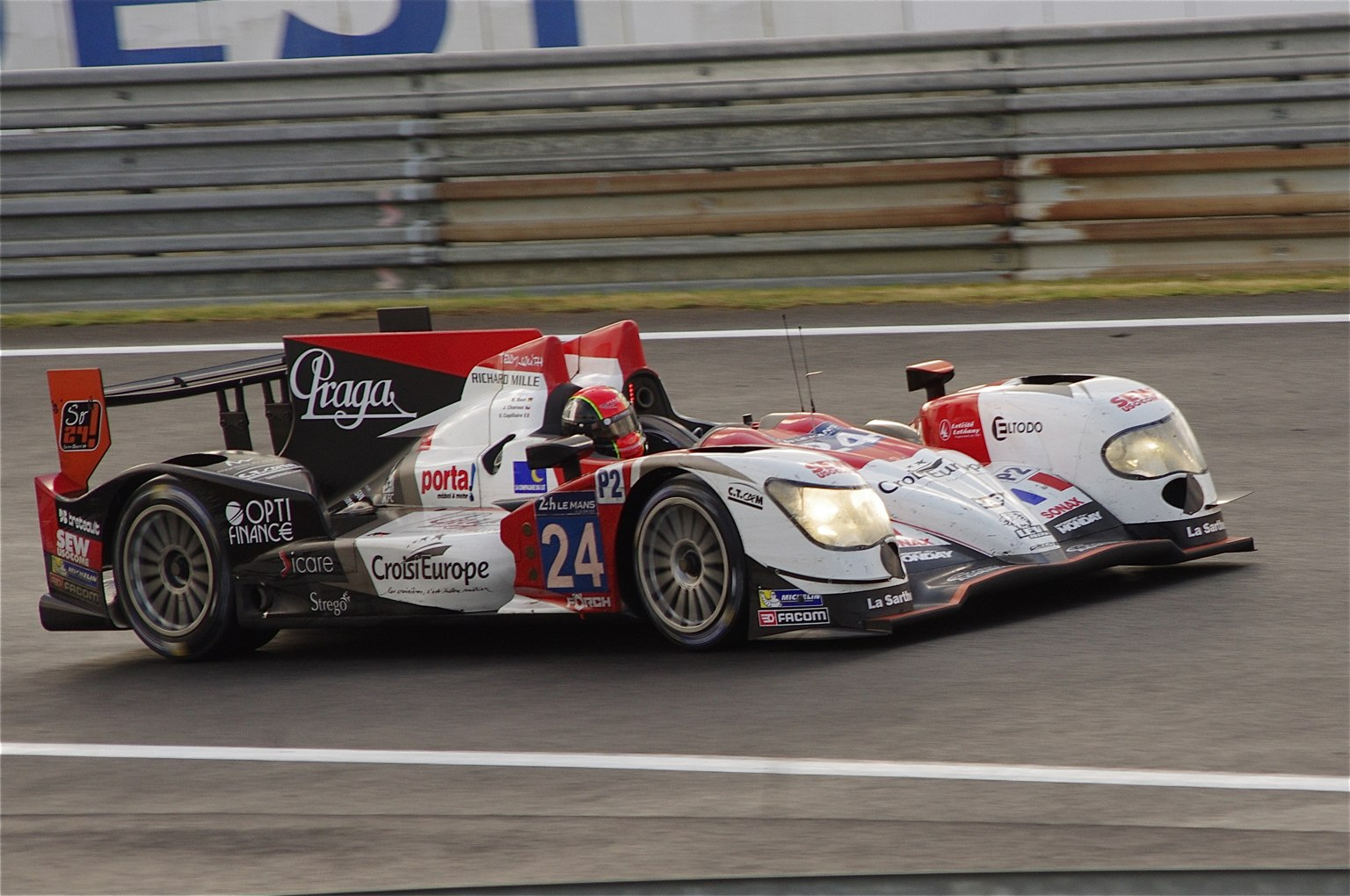 Sébastien Loeb Racing's Oreca 03R Nissan Driven by René Rast, Jan Charouz and Vincent Capillaire - Le Mans 24 Hours 2014